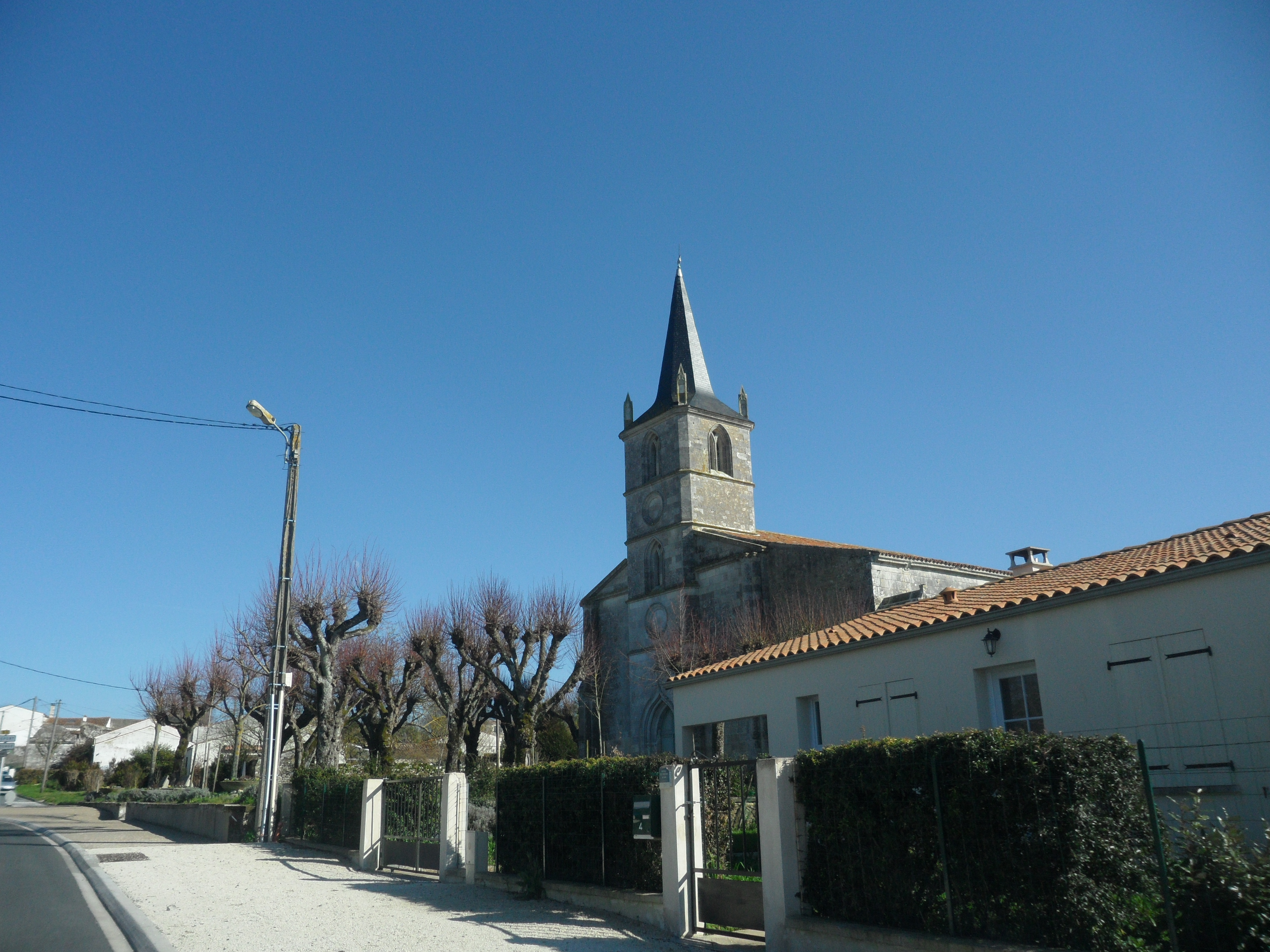 L'église Saint Hilaire de Hiers